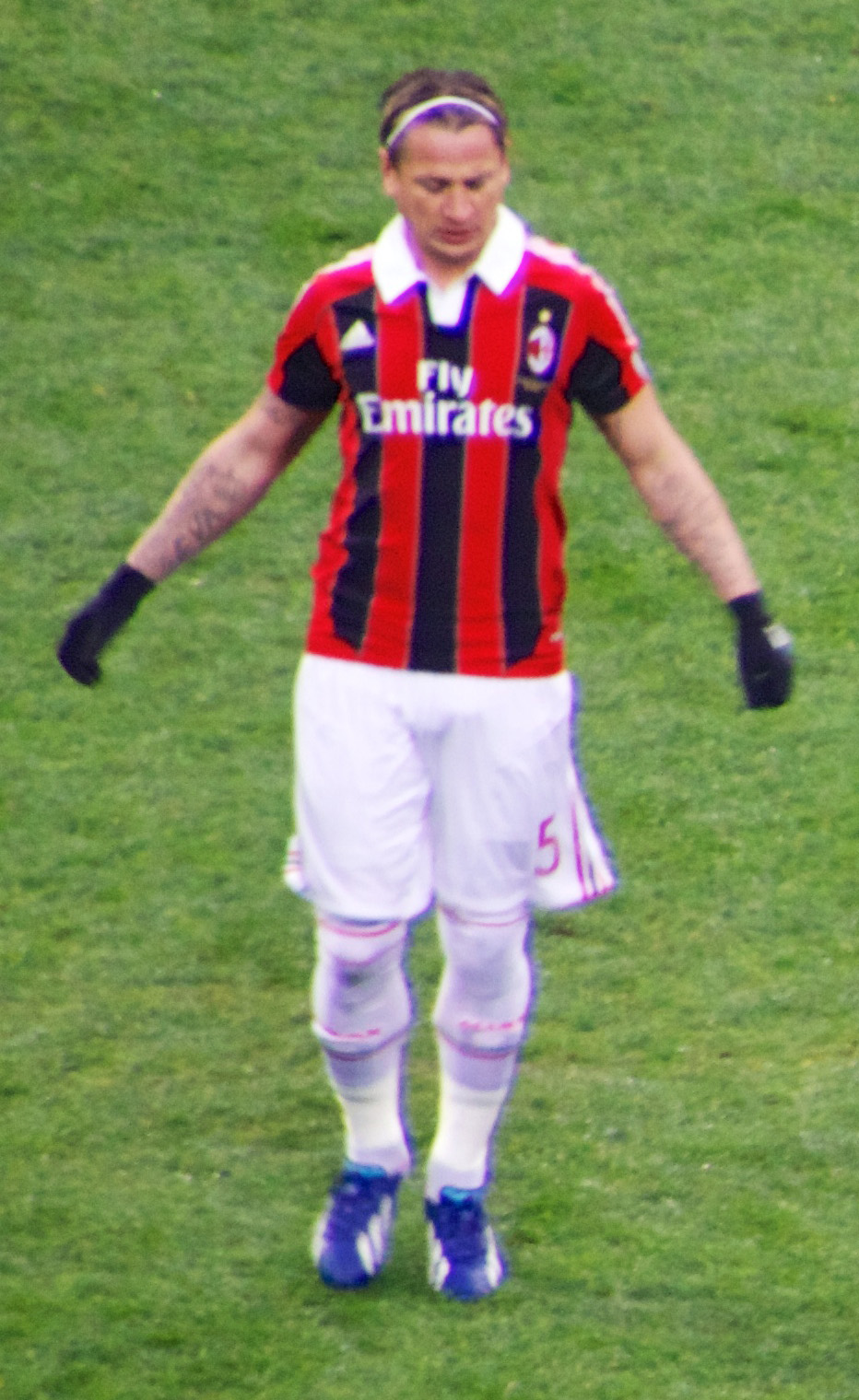 Philippe Mexès, during FC Internazionale Milano-AC Milan, february 2013